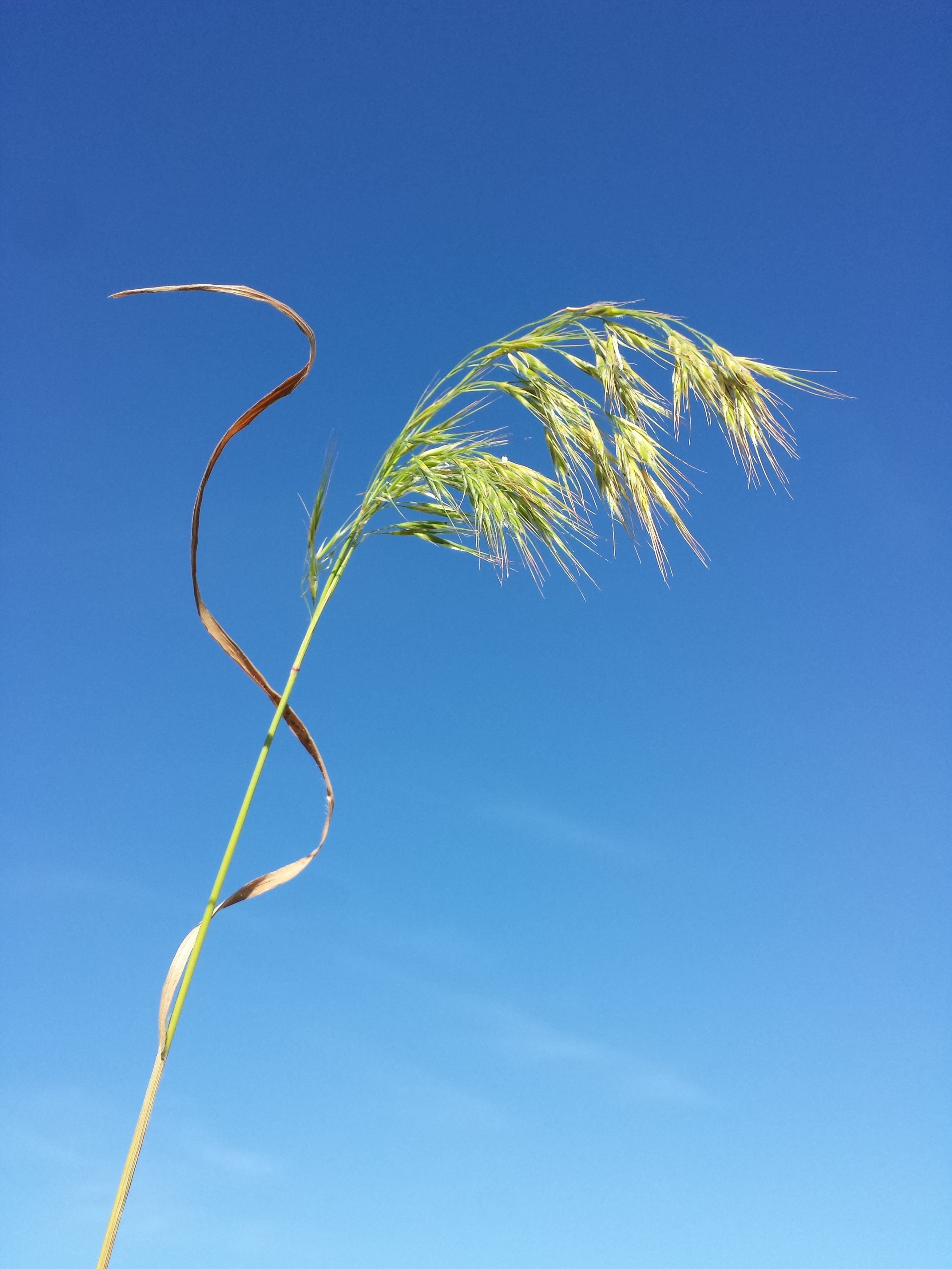 Panicle Taxonym: Bromus tectorum ss Fischer et al. EfÖLS 2008 ISBN 978-3-85474-187-9 Location: Jedlersdorf rail station, Vienna-Floridsdorf - ca. 160 m a.s.l. Habitat: ruderal area